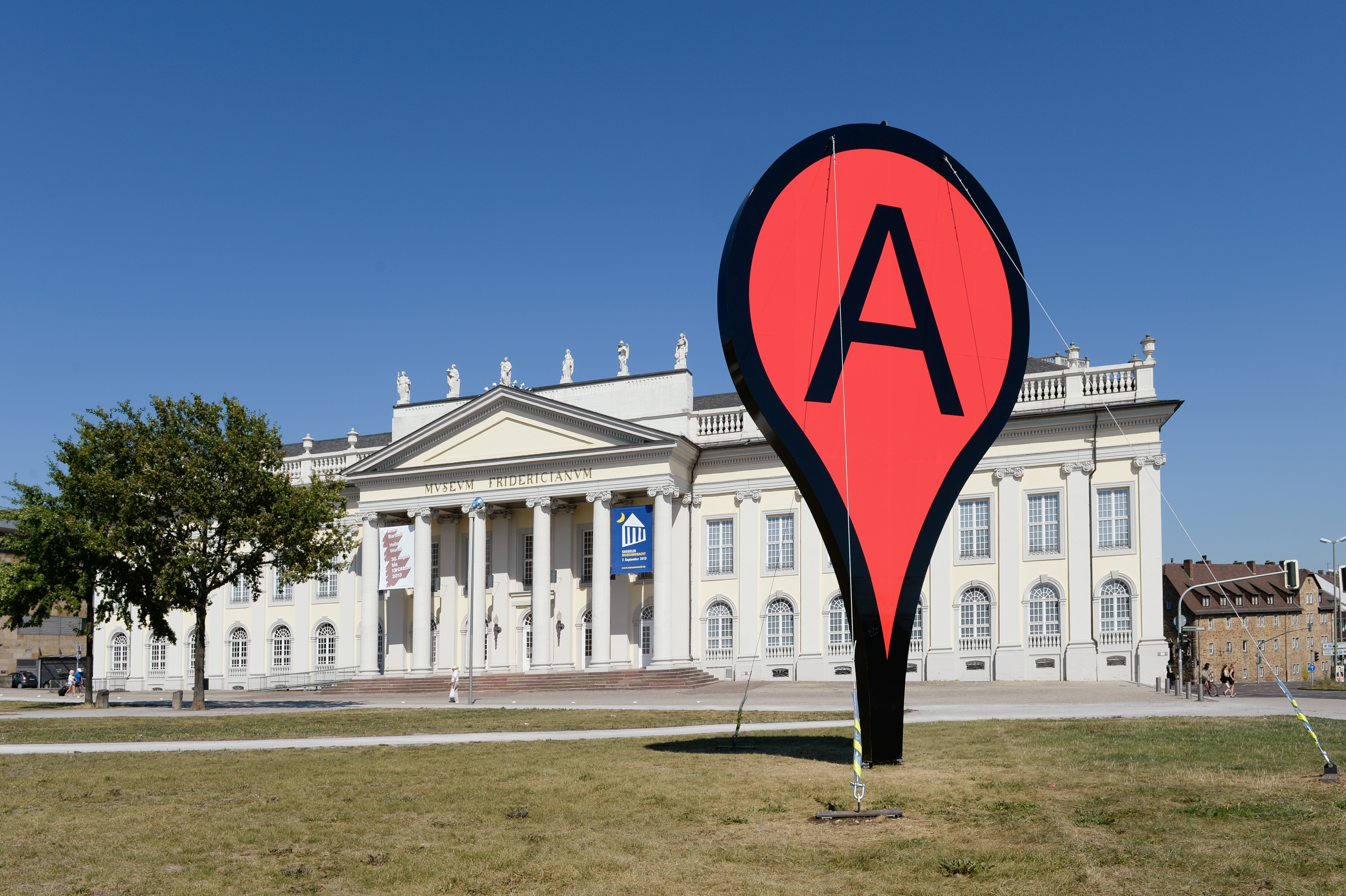 The sculpture 'Map' by Aram Bartholl during the show 'Hello World!' at Kasseler Kunstverein, Fridericianum Kassel, 2013.